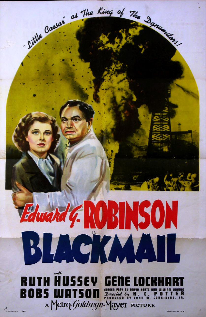 Poster for the 1939 film Blackmail.. The item has no copyright markings on it as can be seen in the links above. At bottom left is "C" (for poster version "C"), Litho in USA and #3893 which probably pertains to the printing of the poster. At bottom right is Tooker Litho Co. NY-they printed the poster.